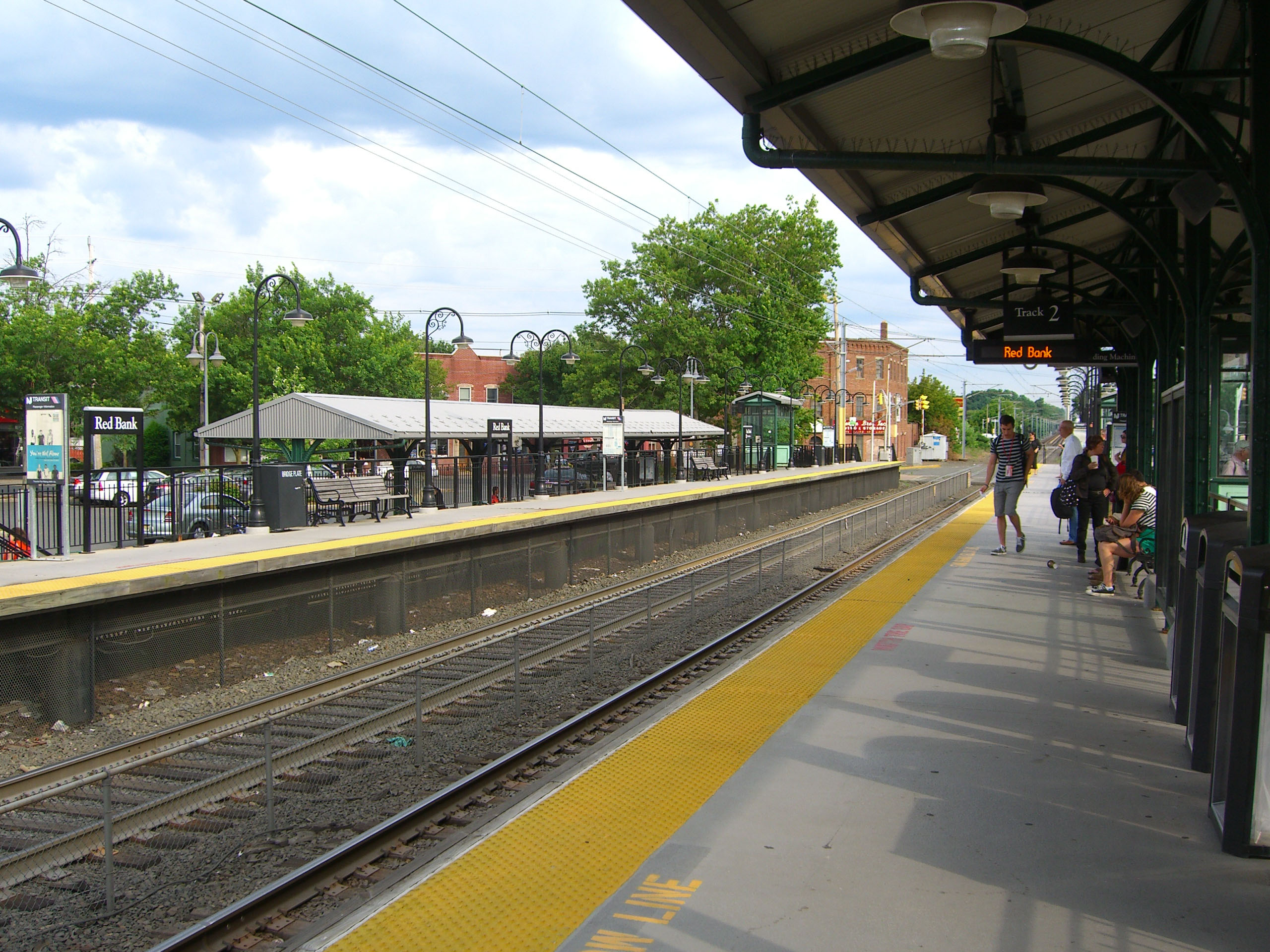 The Red Bank Rail Station in Red Bank, New Jersey, as seen on July 9, 2012. The station is one of 20 stops on New Jersey Transit's North Jersey Coast Line. This photo was created by Luigi Novi. It is not in the public domain, and use of this file outside of the licensing terms is a copyright violation.